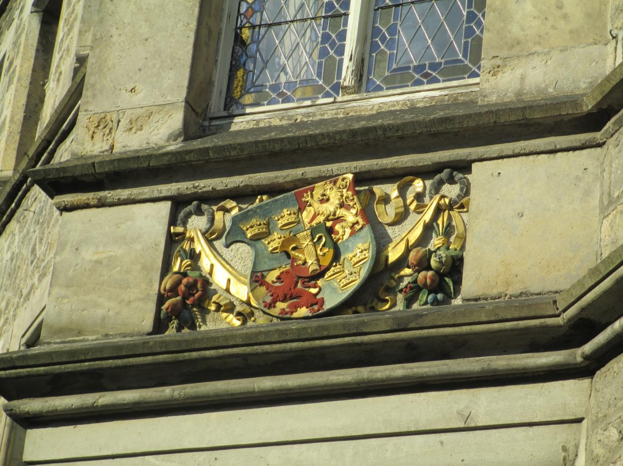 Coat of arms of Sweden on Town HallPlace: Lützen, Germany